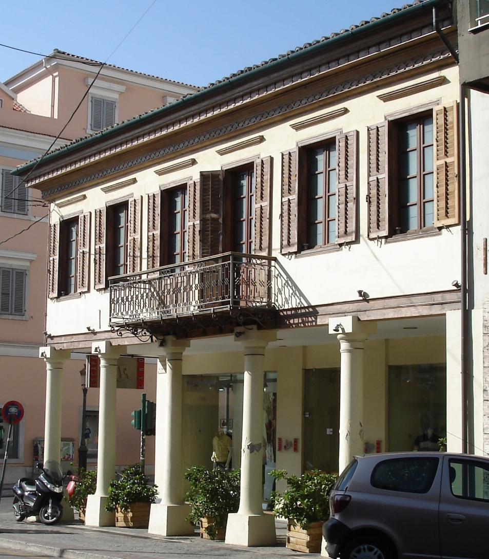 cropped from Image:Ginis House.jpg